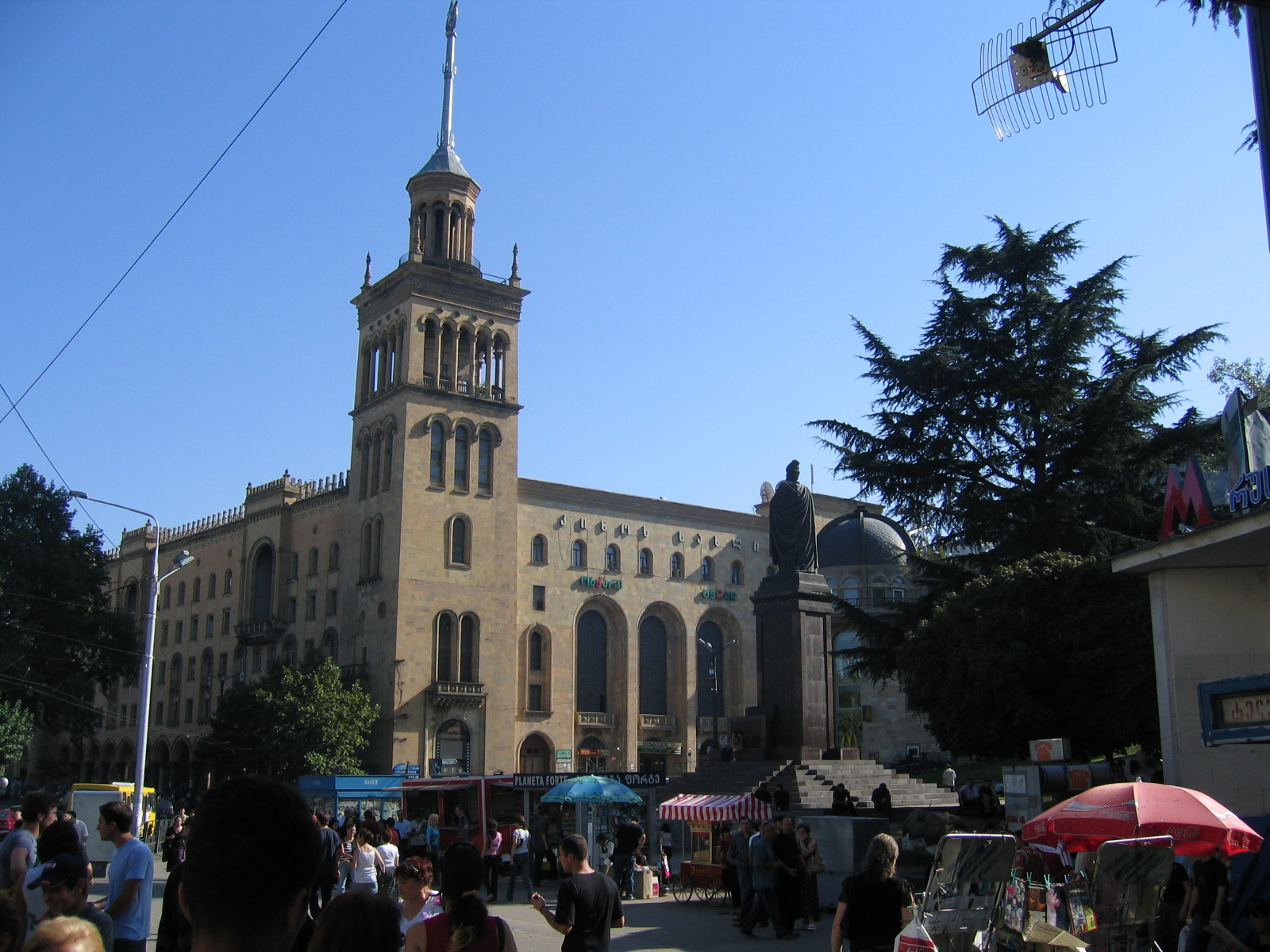 Central in Tbilisi